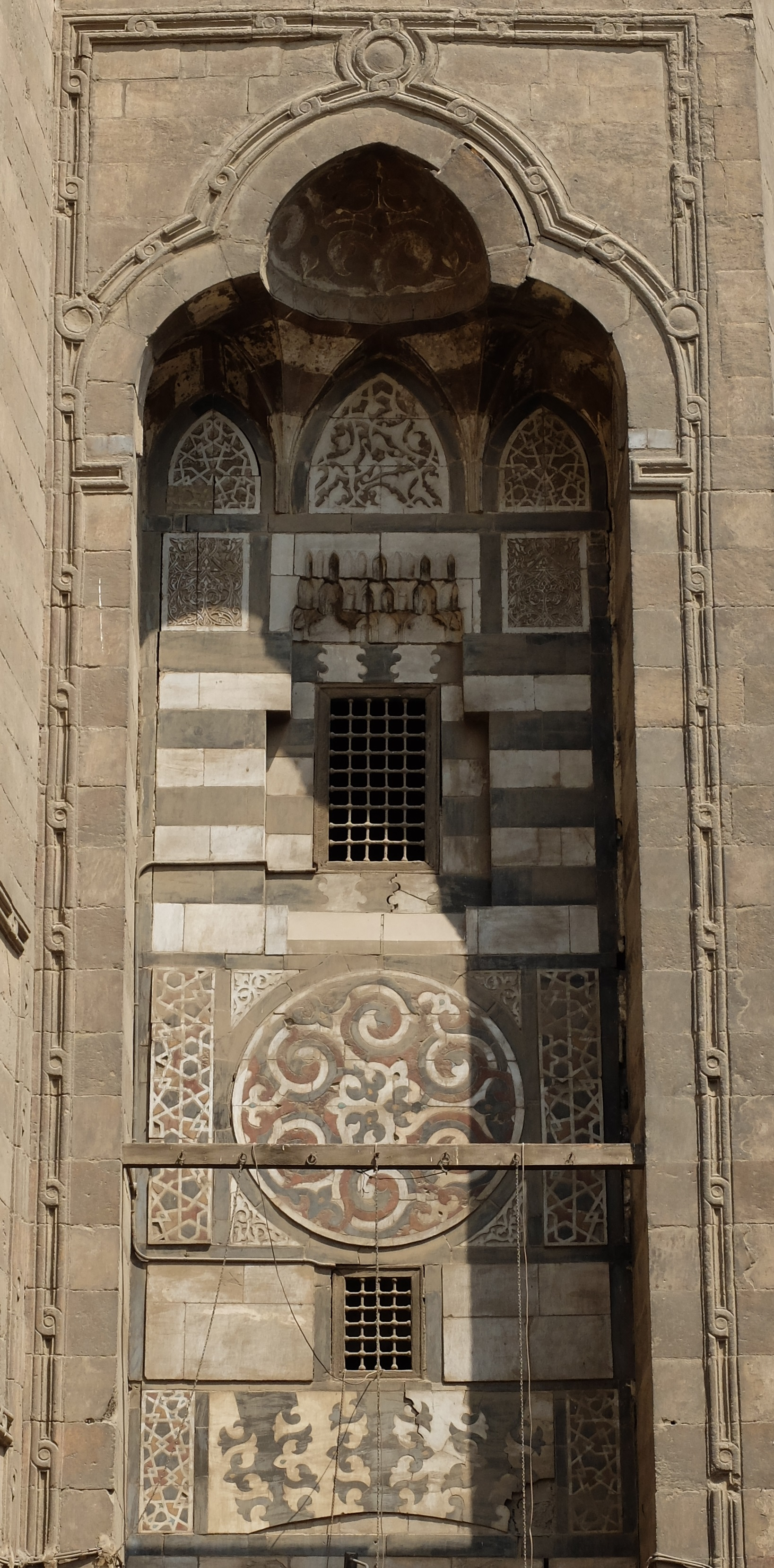 The entrance portal of the Mosque of Qijmas al-Ishaqi.